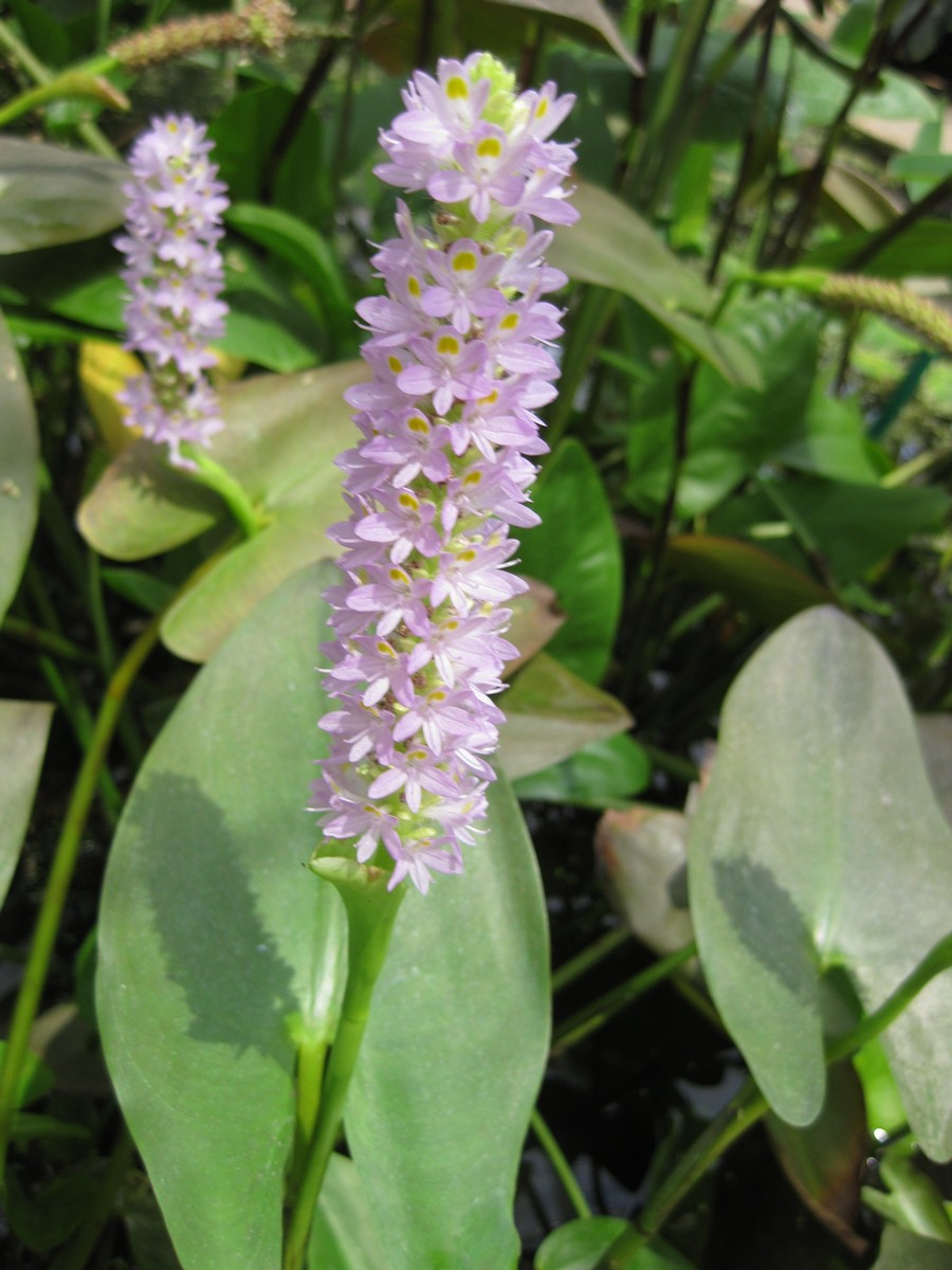 Photographed at the Queen Sirikit Botanic Garden (Chiang Mai Province, Thailand) in March